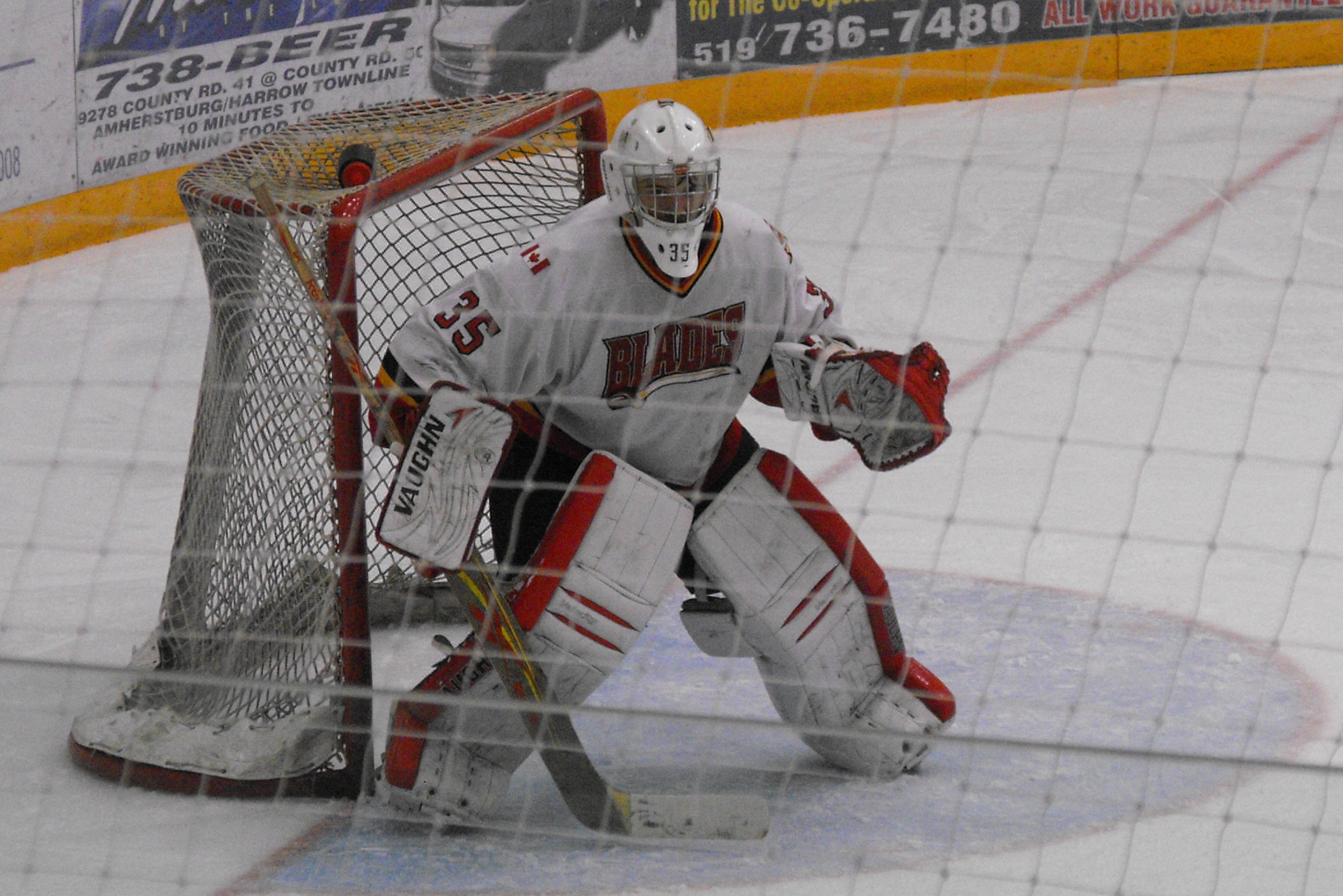 These images of GLJHL action are taken by Devan Mighton.